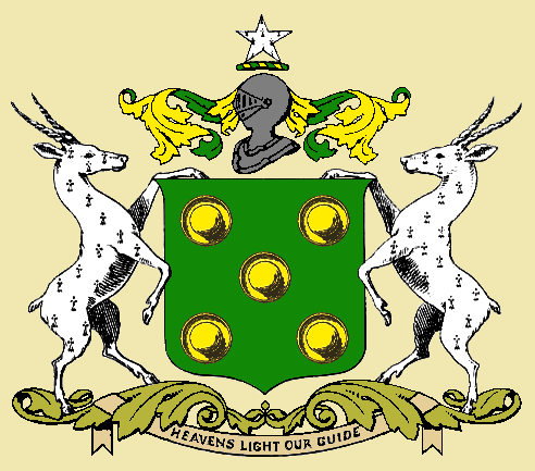 Malerkotla State Coat of Arms; Motto: Heavens Light Our Guide This work is in the public domain in India because its term of copyright has expired. The Indian Copyright Act applies in India, to works first published in India. According to The Indian Copyright Act, 1957 (Chapter V Section 25), Anonymous works, photographs, cinematographic works, sound recordings, government works, and works of corporate authorship or of international organizations enter the public domain 60 years after the date on which they were first published, counted from the beginning of the following calendar year (ie. as of 2016, works published prior to 1 January 1956 are considered public domain). Posthumous works (other than those above) enter the public domain after 60 years from publication date. Any other kind of work enters the public domain 60 years after the author's death. Text of laws, judicial opinions, and other government reports are free from copyright. Photographs created before 1958 are in the public domain 50 years after creation, as per the Copyright Act 1911. This file may not be in the public domain outside India. The creator and year of publication are essential information and must be provided. See Wikipedia:Public domain and Wikipedia:Copyrights for more details. This image shows a flag, a coat of arms, a seal or some other official insignia. The use of such symbols is restricted in many countries. These restrictions are independent of the copyright status.